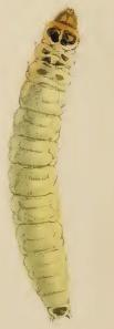 Stainton’s Natural History of the Tineina (1855–1873): Coleophora silenella